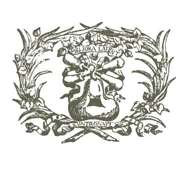 Accademia Senese Intronati (sign)